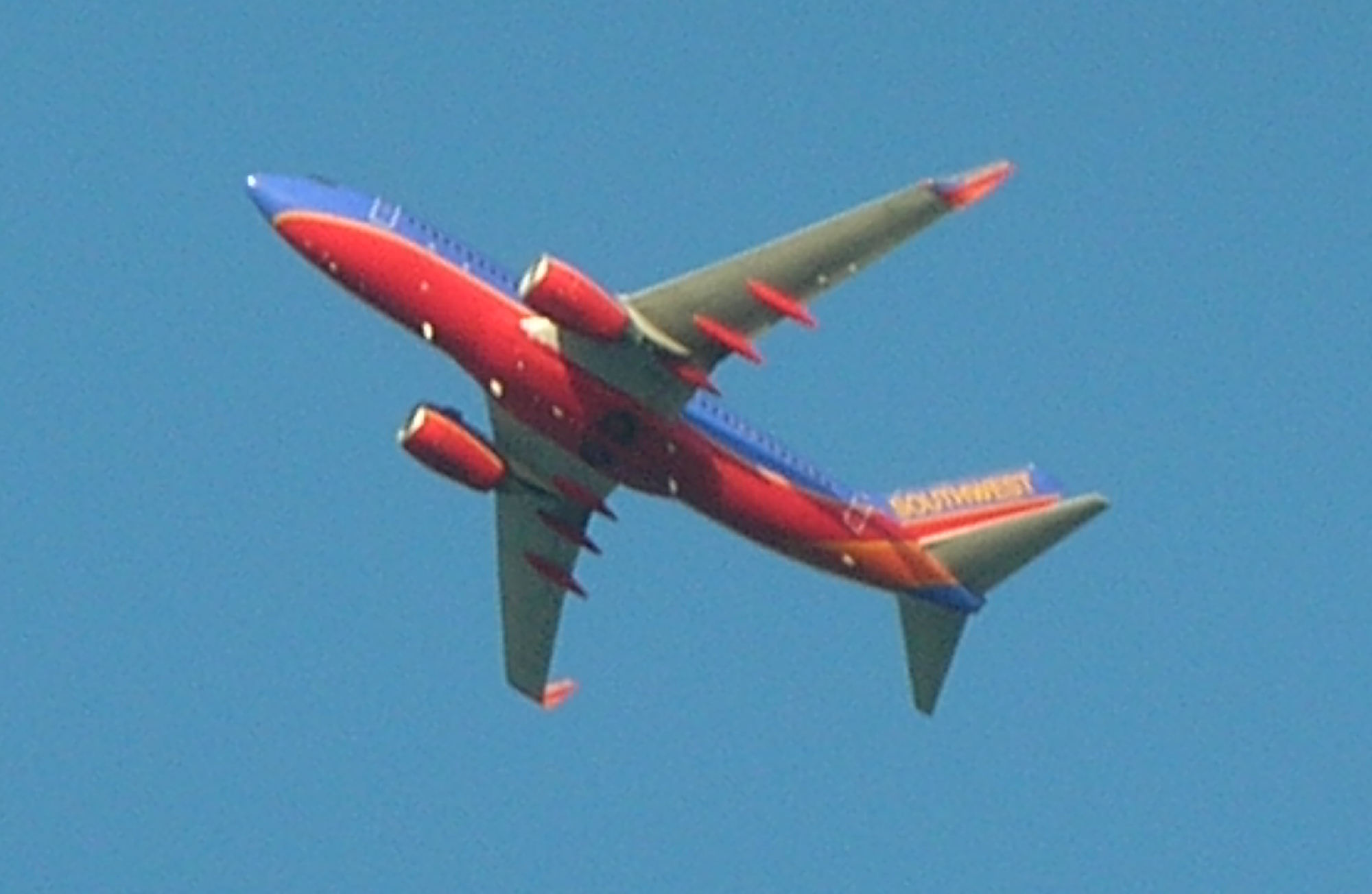 A Southwest Airlines Boeing 737 flying out of San Francisco International Airport (SFO).